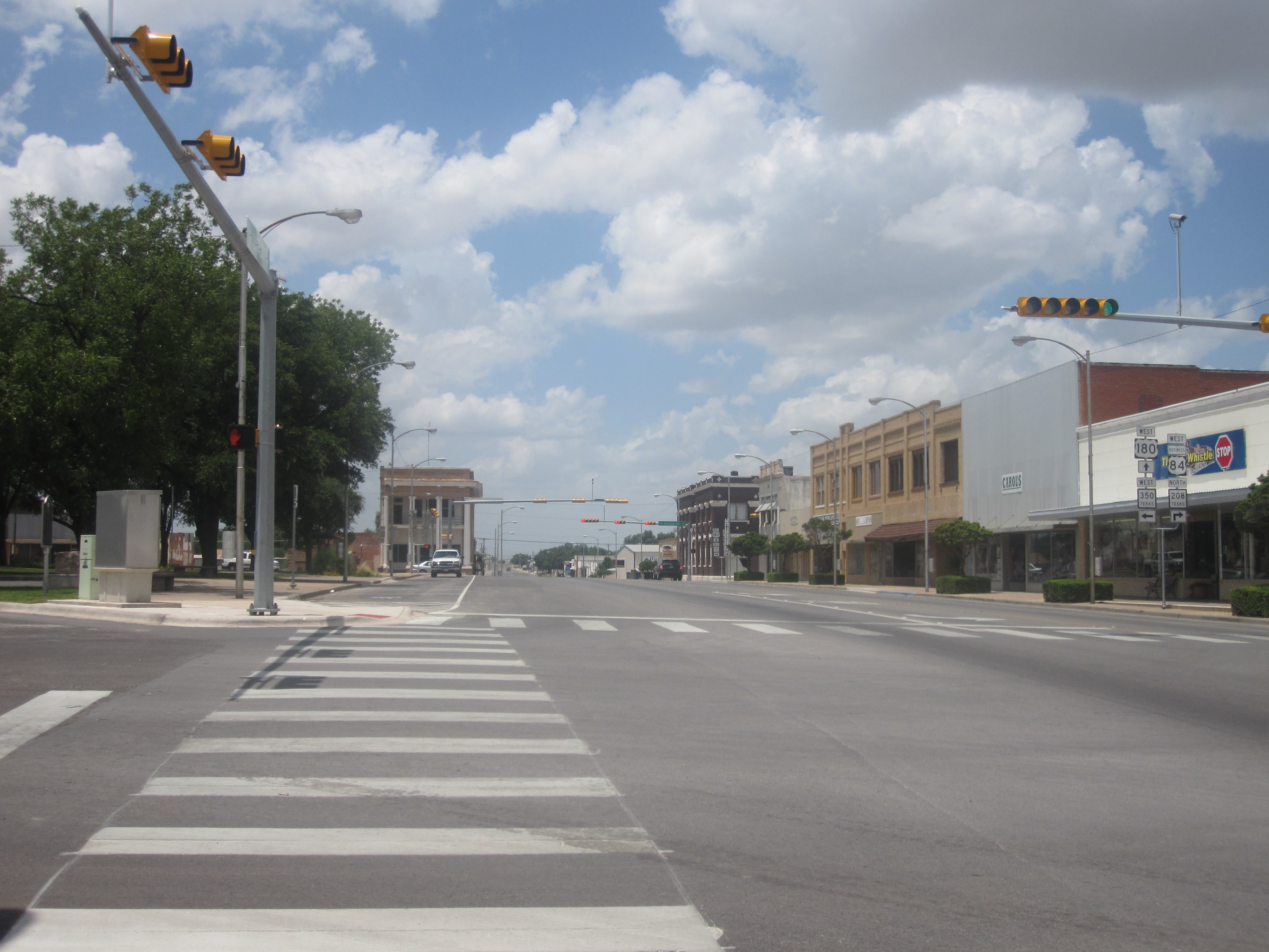 I took photo with Canon camera in Snyder, TX.